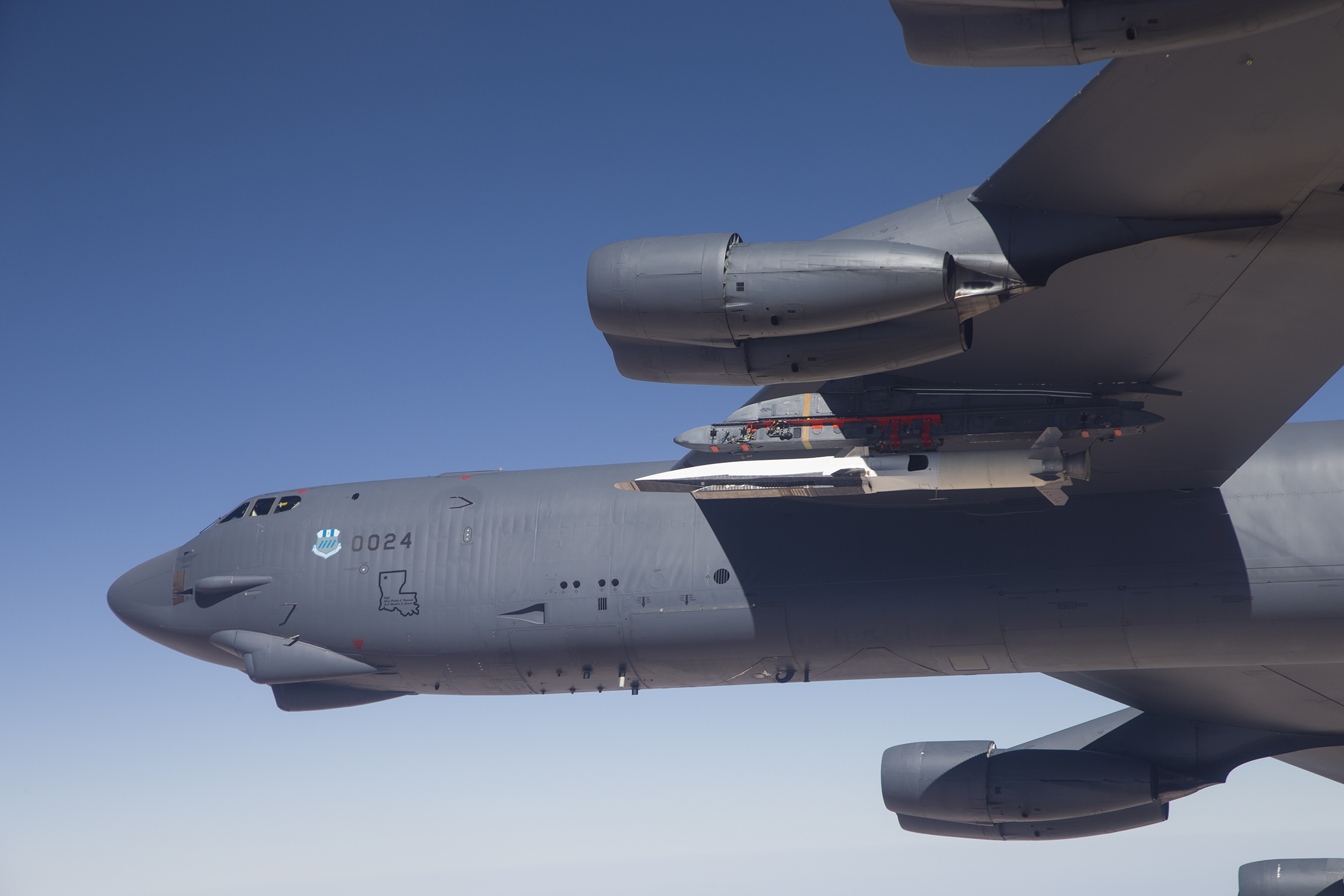 USAF Text to the picture: The X-51A Waverider prepares to launch its historic fourth and final flight. The cruiser achieved Mach 5.1 traveling 230 nautical miles in just over six minutes, making this test the longest air-breathing hypersonic flight ever.